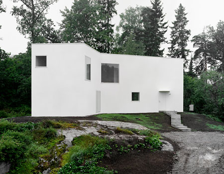 Villa Älta av Johannas Norlander